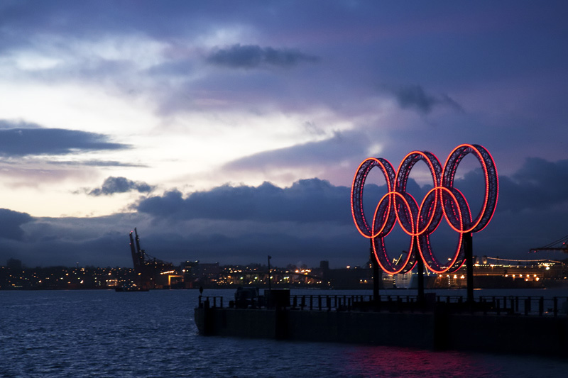 Taken on my way to watch the torch relay, outside the beautiful Stanley park [Opening day Olympics 2010]